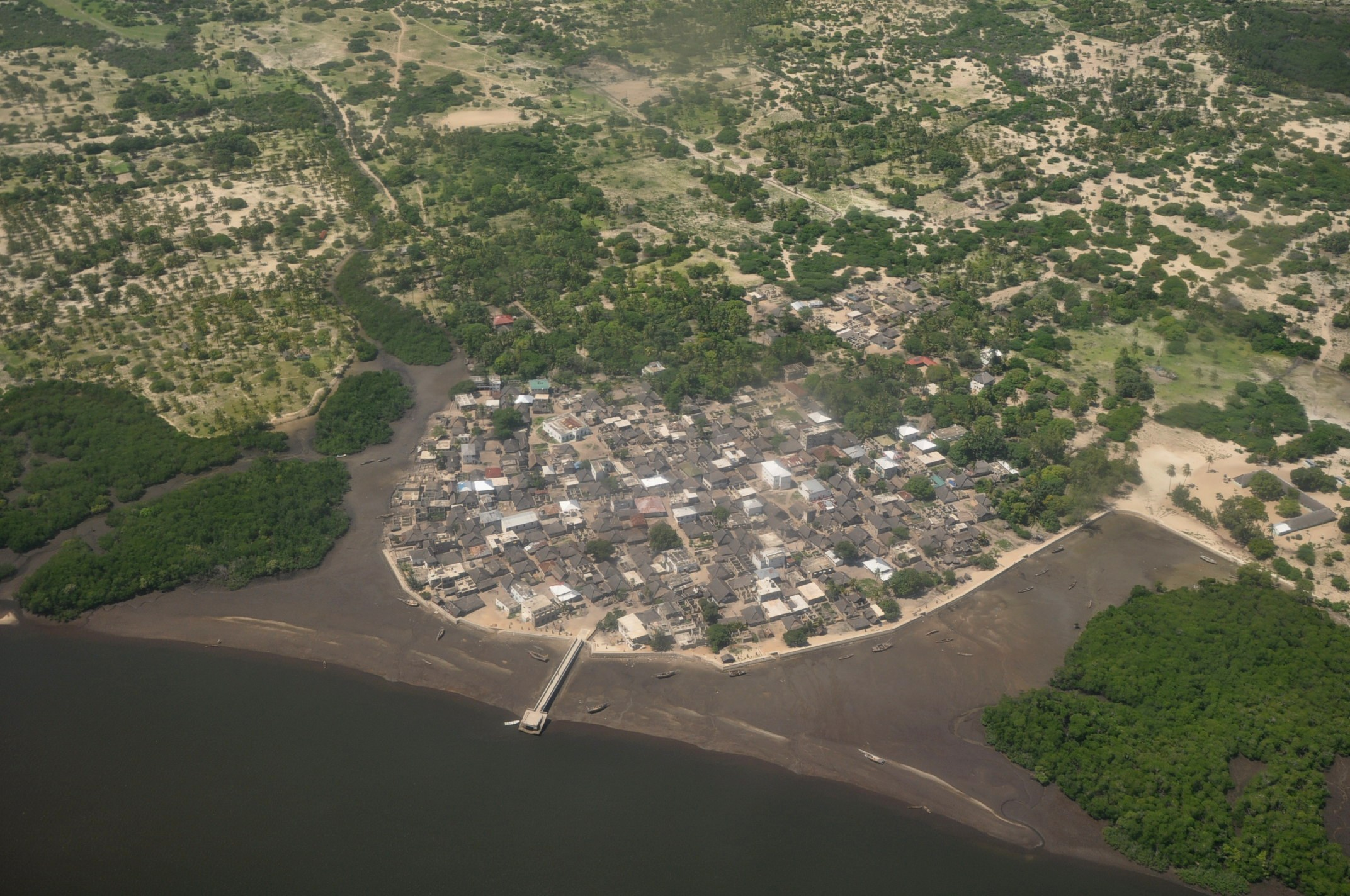 Matondoni is one of the four settlements on Lamu Island, Kenya. (The other three are Lamu town, Kipungani and Shela).